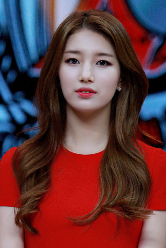 Suzy on 16 December 2013